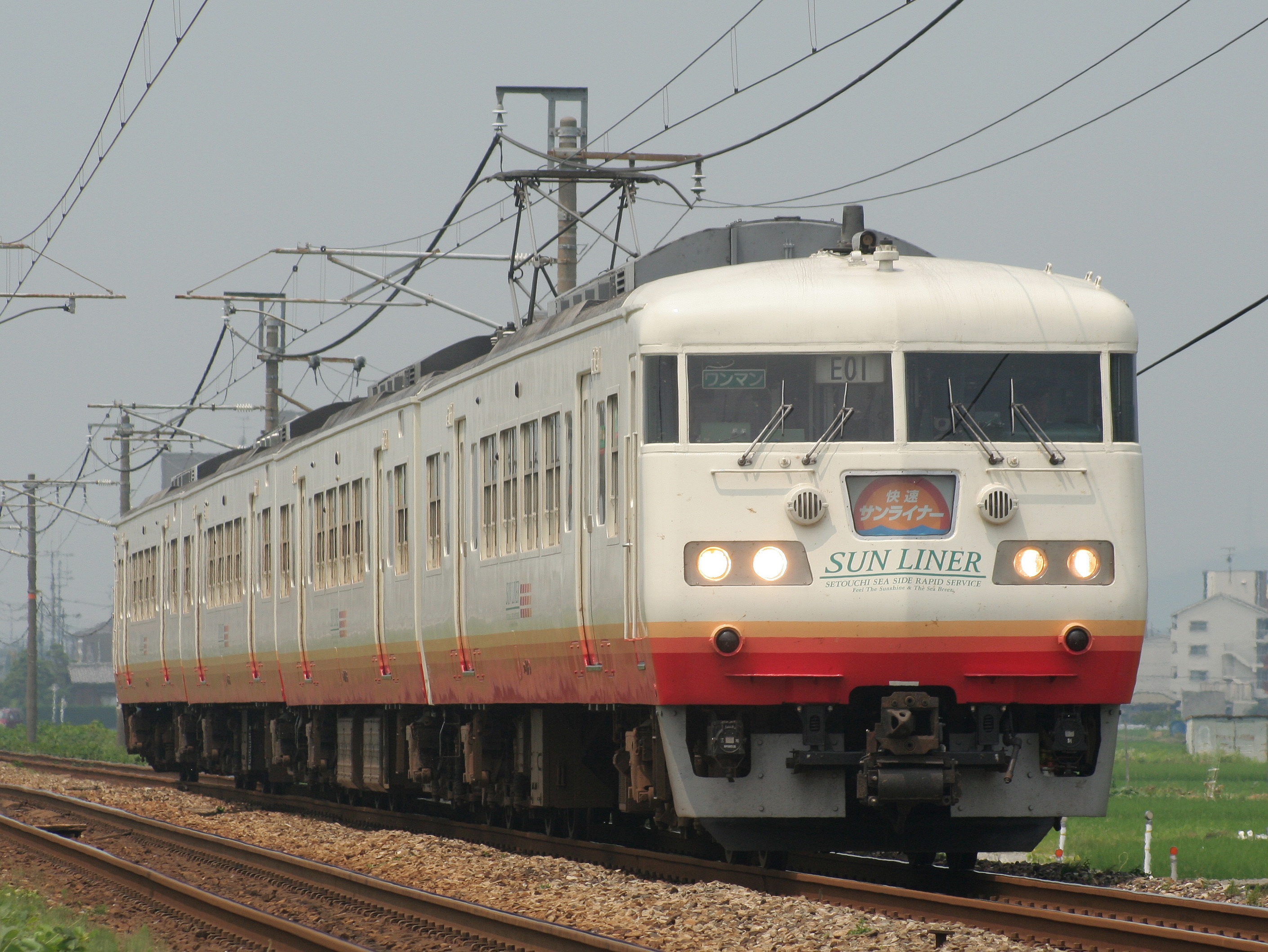 West Japan Railway EC 117-series rapid Sun liner